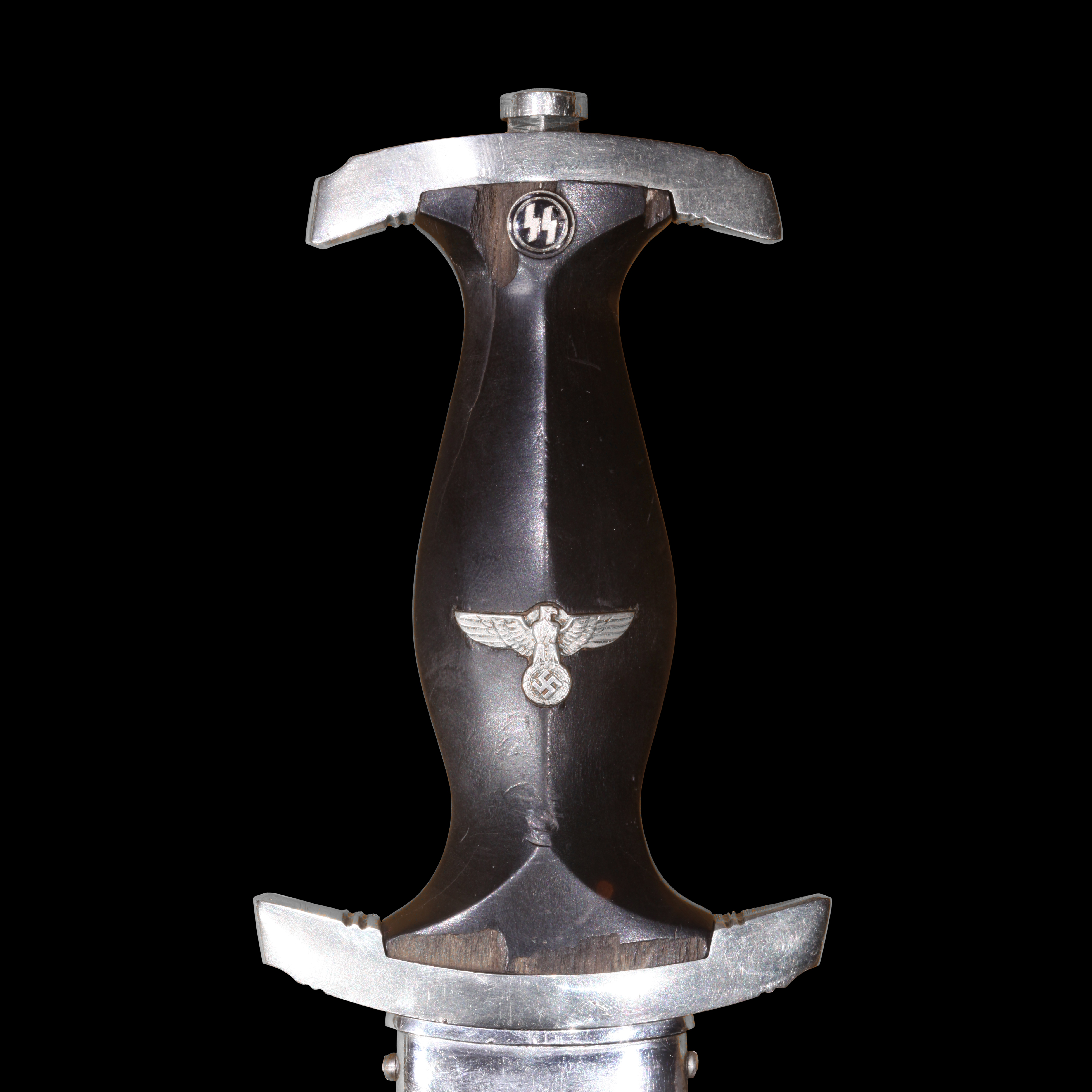 Weapons of honour of t he Third Reich, here “Honorary-dagger of the SS” until 1945, aus der Sammlung von Paul Regnier, Lausanne, Schweiz.